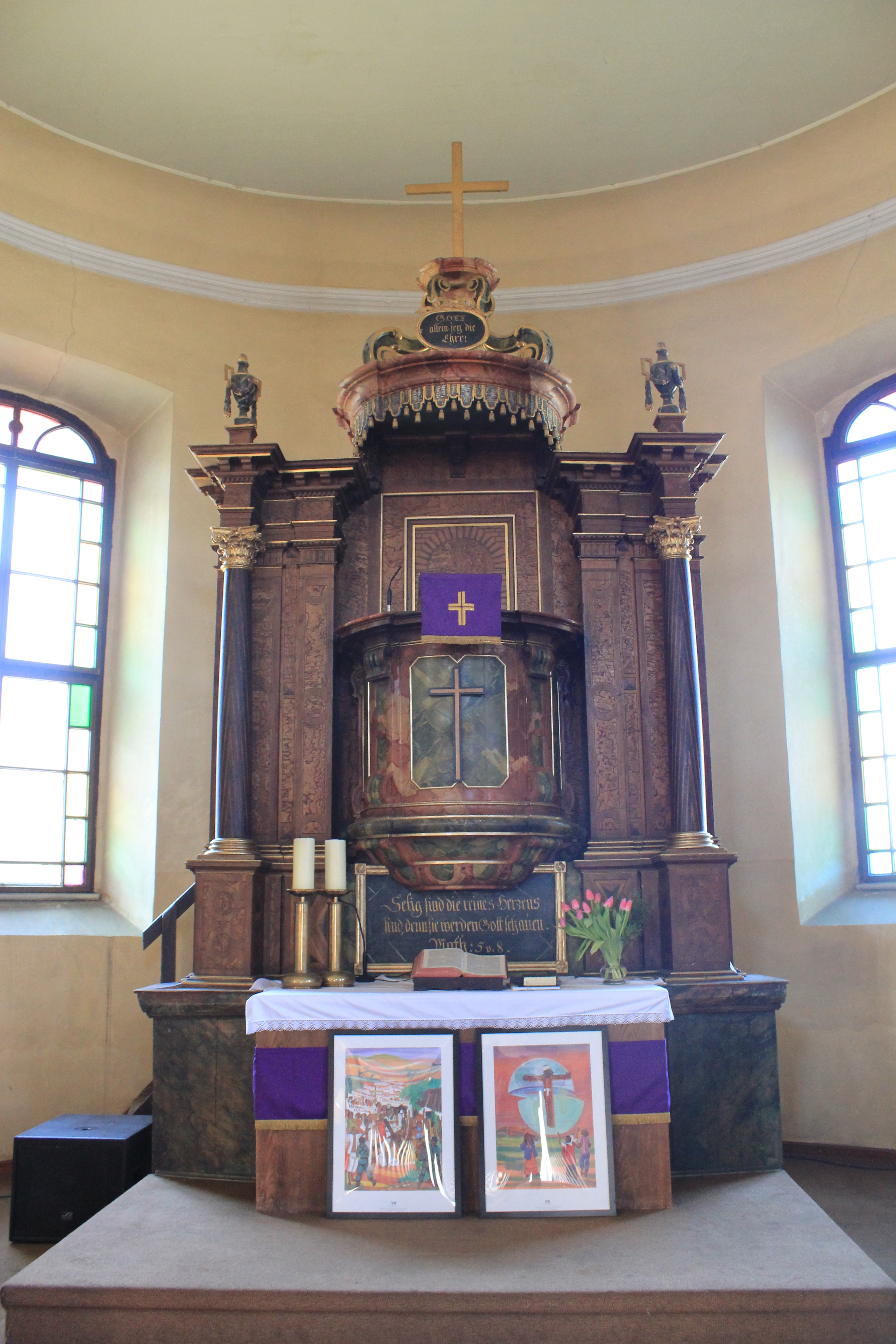 Lutherian church St. Ruprecht in Villach